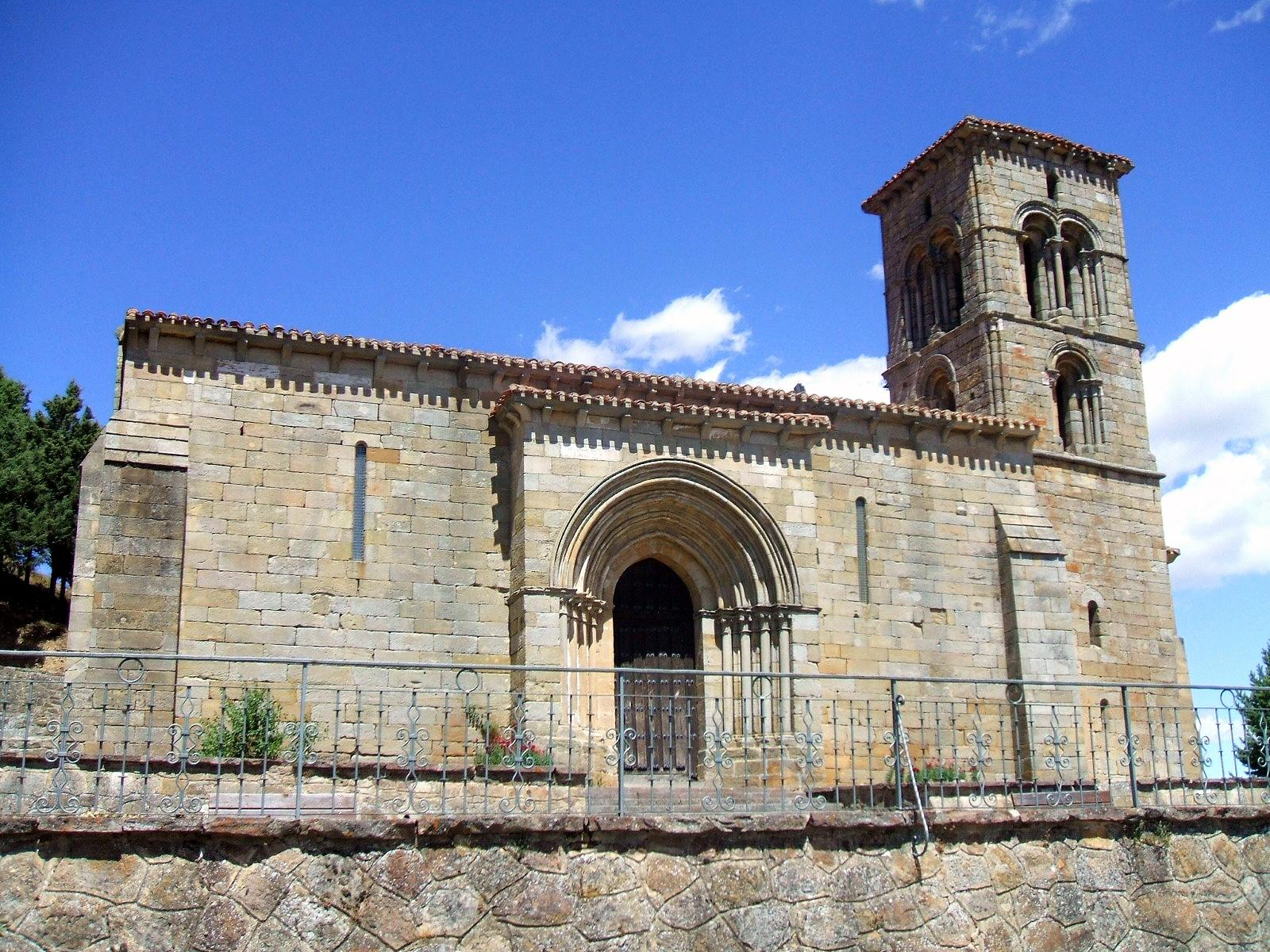 Ermita románica de Santa Cecilia, en Aguilar de Campoo (Palencia, Castilla y León, España)